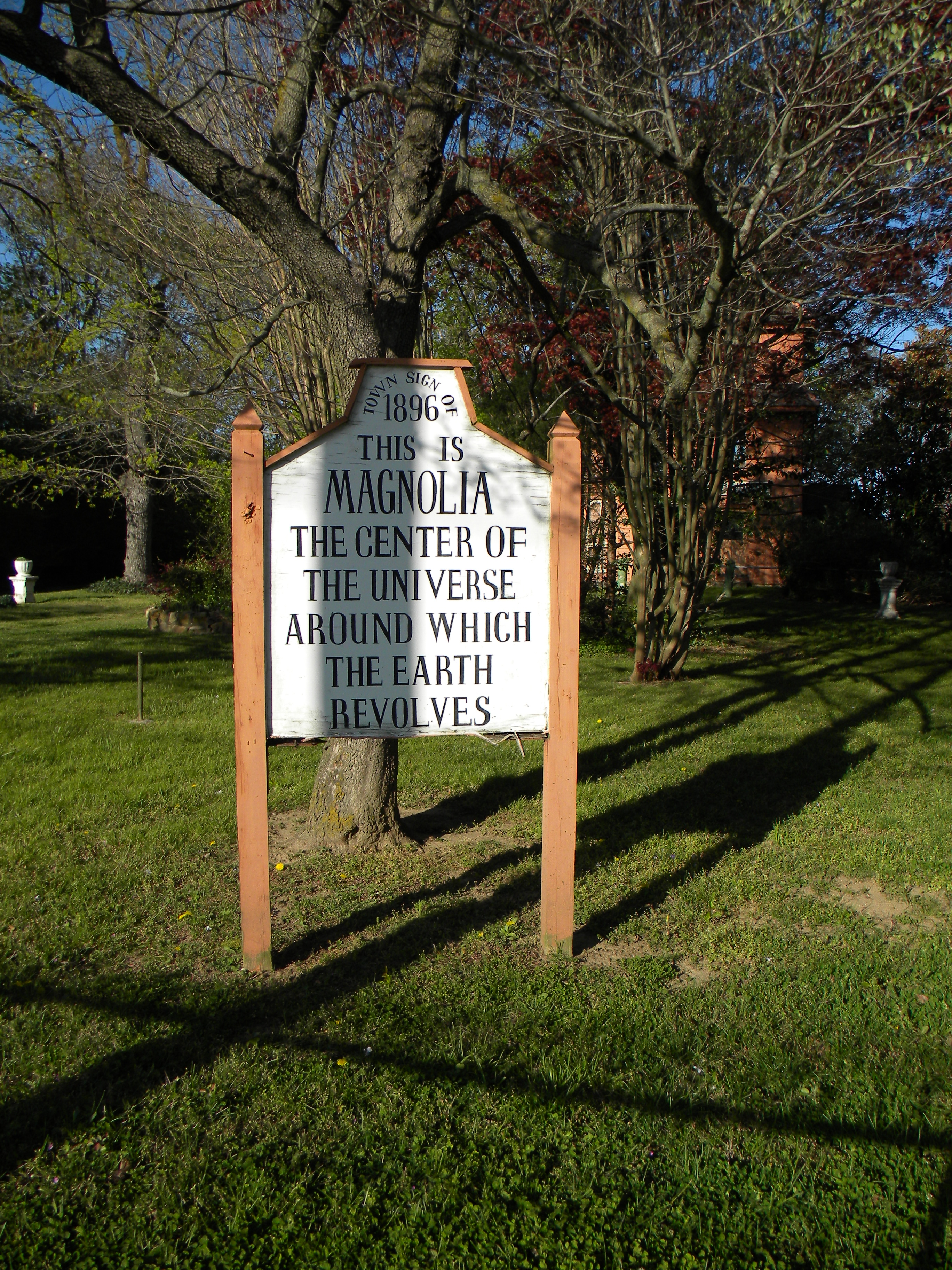 This is the funny sign outside of the Lindale House in Magnolia, Delaware which proclaims that Magnolia is the center of the universe.